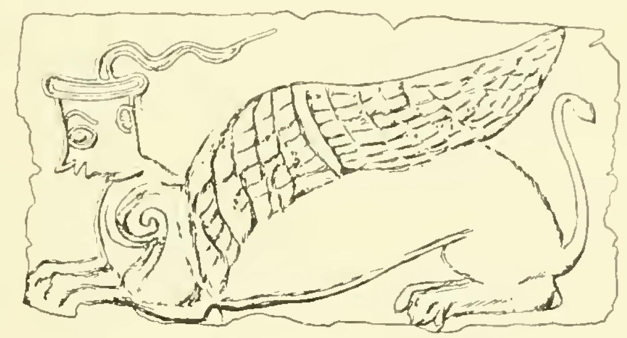 Sphinx